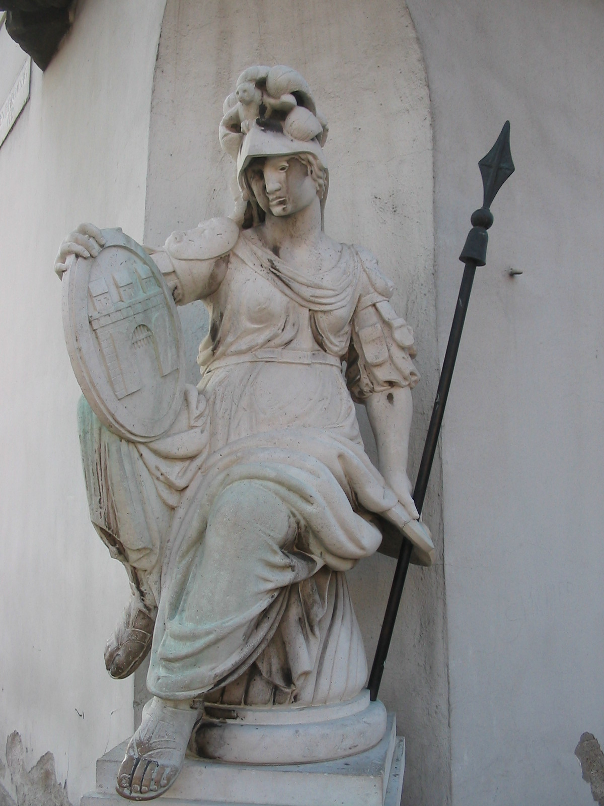 Own photo, taken on Budapest, Castle Hill. Szentháromság Sq. and Szentháromság Street corner. BBuilding decor.